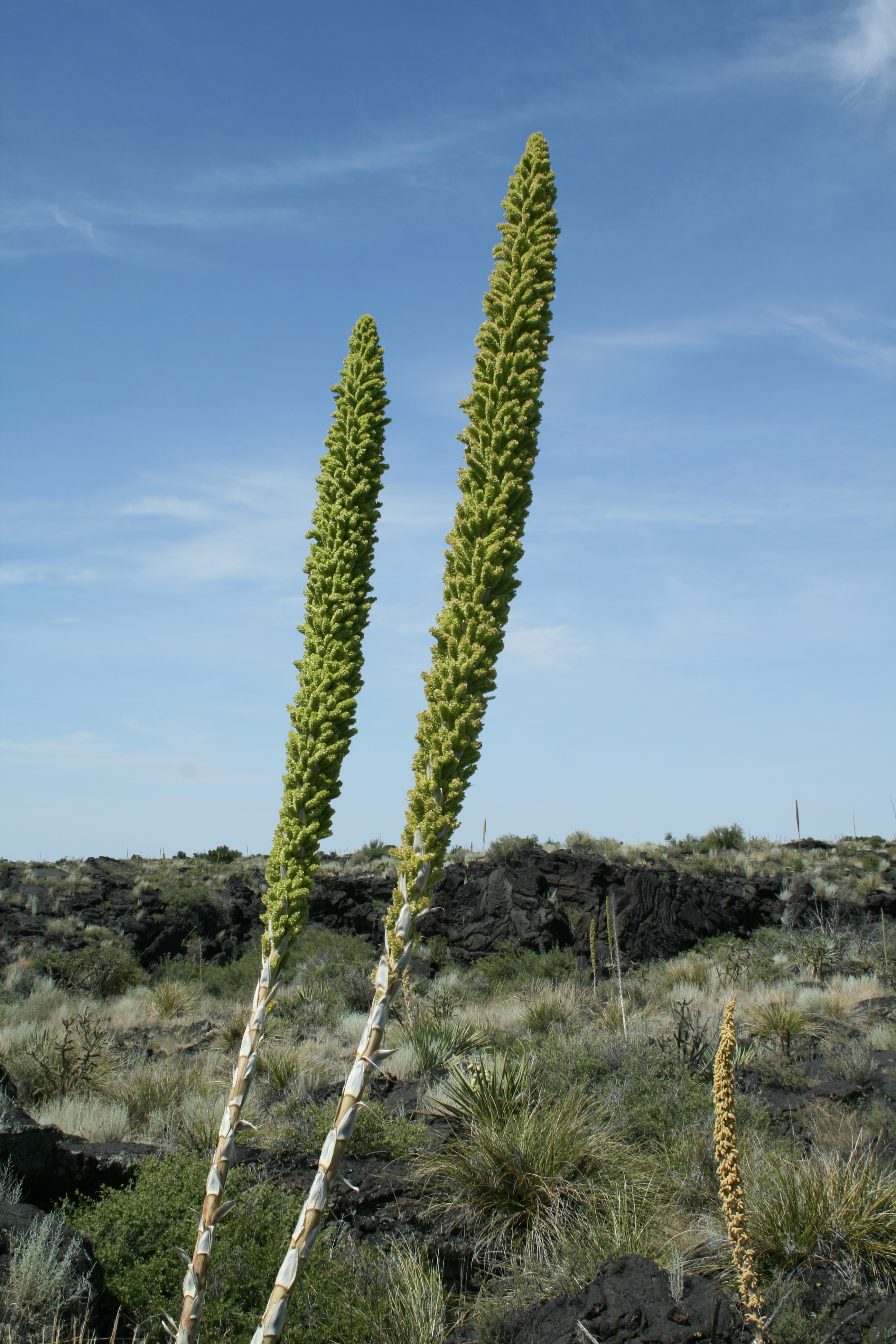 Dasylirion wheeleri (Desert Spoon or Common Sotol) plant at the Valley of Fires Recreation Area in New Mexico